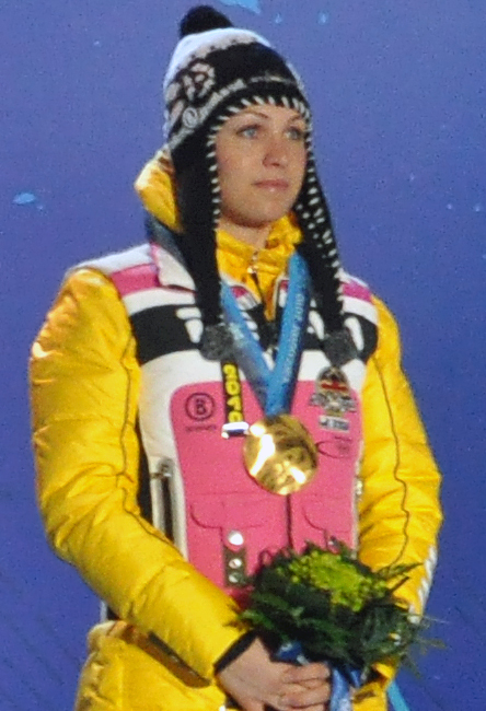 Magdalena Neuner accepting her gold medal for winning in the women's 10km pursuit biathlon event. Vancouver 2010 Winter Olympics Cropped from File:Neuner-Vancouver-MedalCeremony.jpg